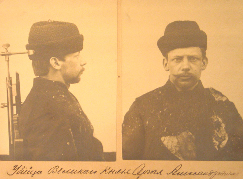 Ivan Kalyayev